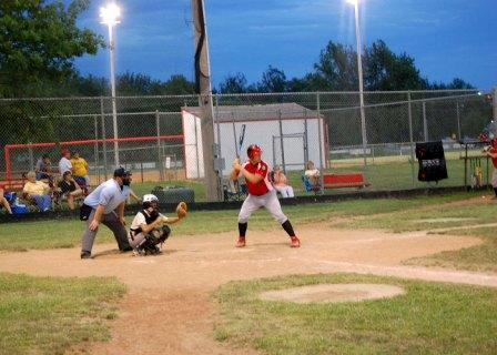 Baseball game at Karl Cole sports complex in Osawatomie, Kansas